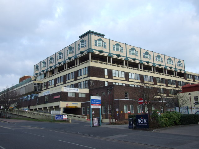 Poole Hospital. Entrance to car drop off point and ambulance ramp up to Accident and Emergency Department.